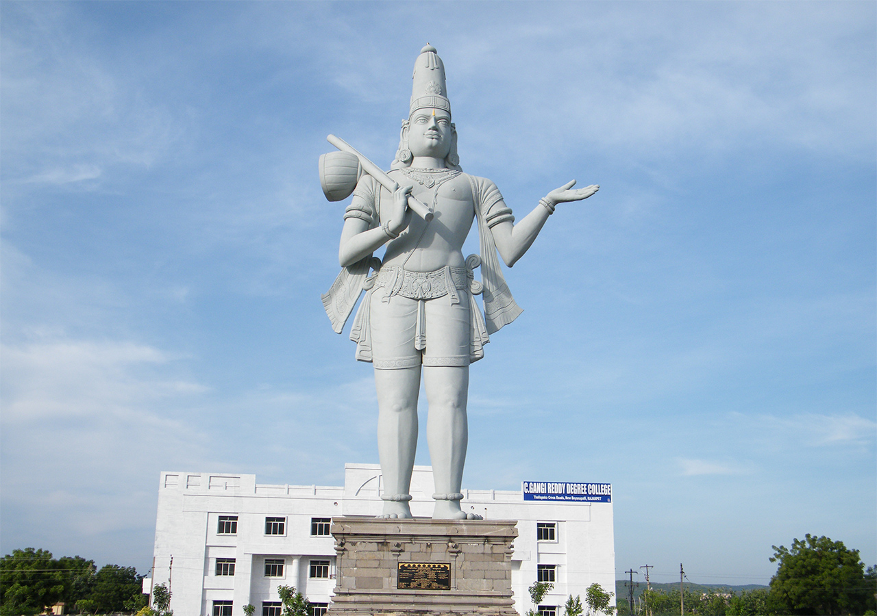 10-storey tall statue of Sri Tallapaka Annamacharya located at the entrance of Tallapaka, on the outskirts of Rajampet town, Kadapa district, Andhra Pradesh, India. The statue is housed in its own landscaped compound, the building in the background is not part of that compound.